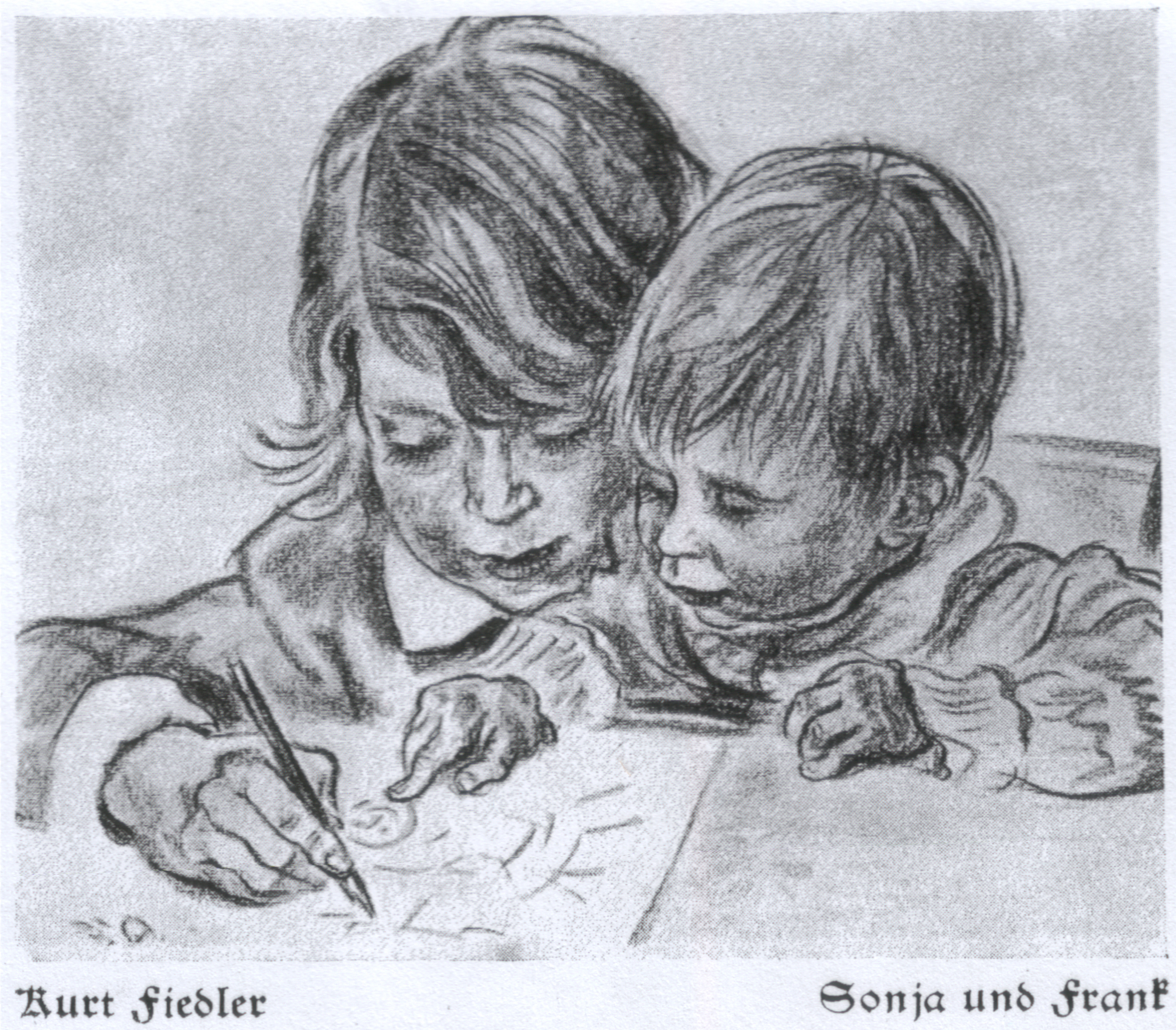 Sonja and Frank are the two elder children of the artist.